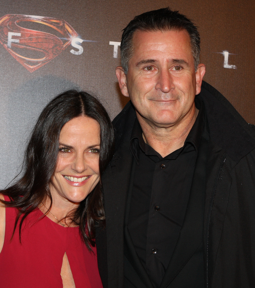 Anthony LaPaglia and Gia Carides at the Man of Steel premiere in Sydney